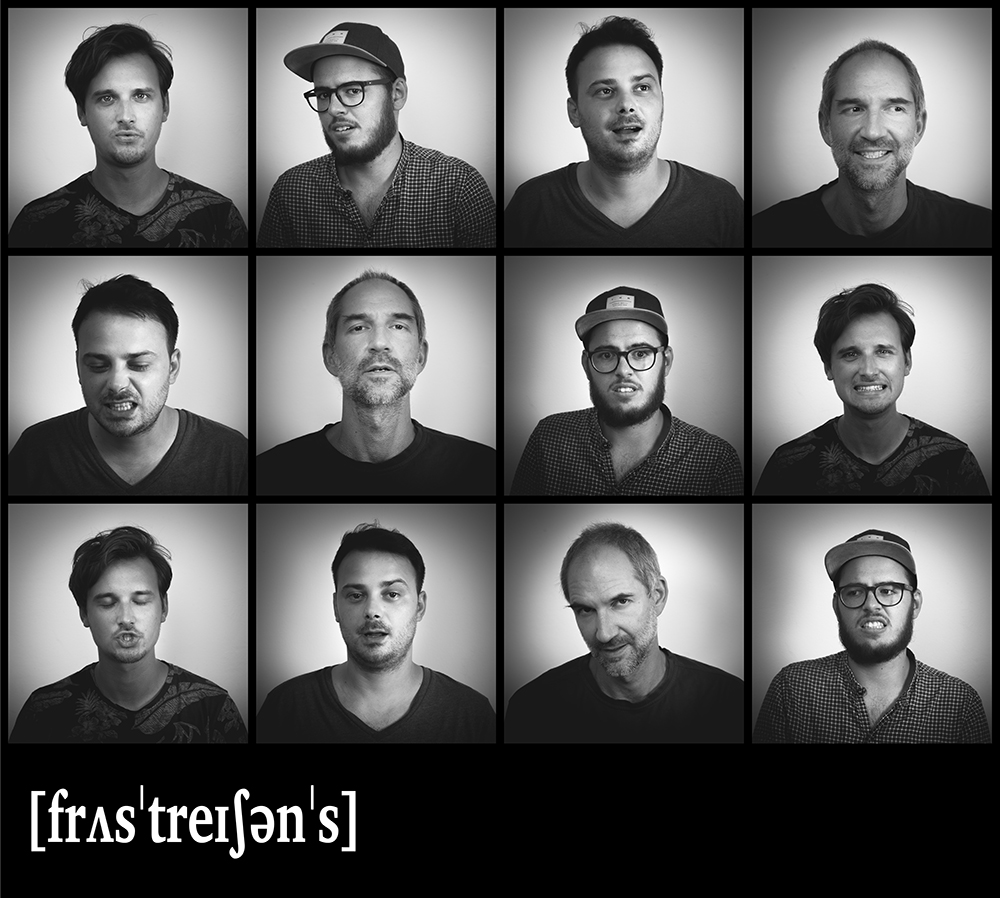 Part of the booklet from the album "Thrive"